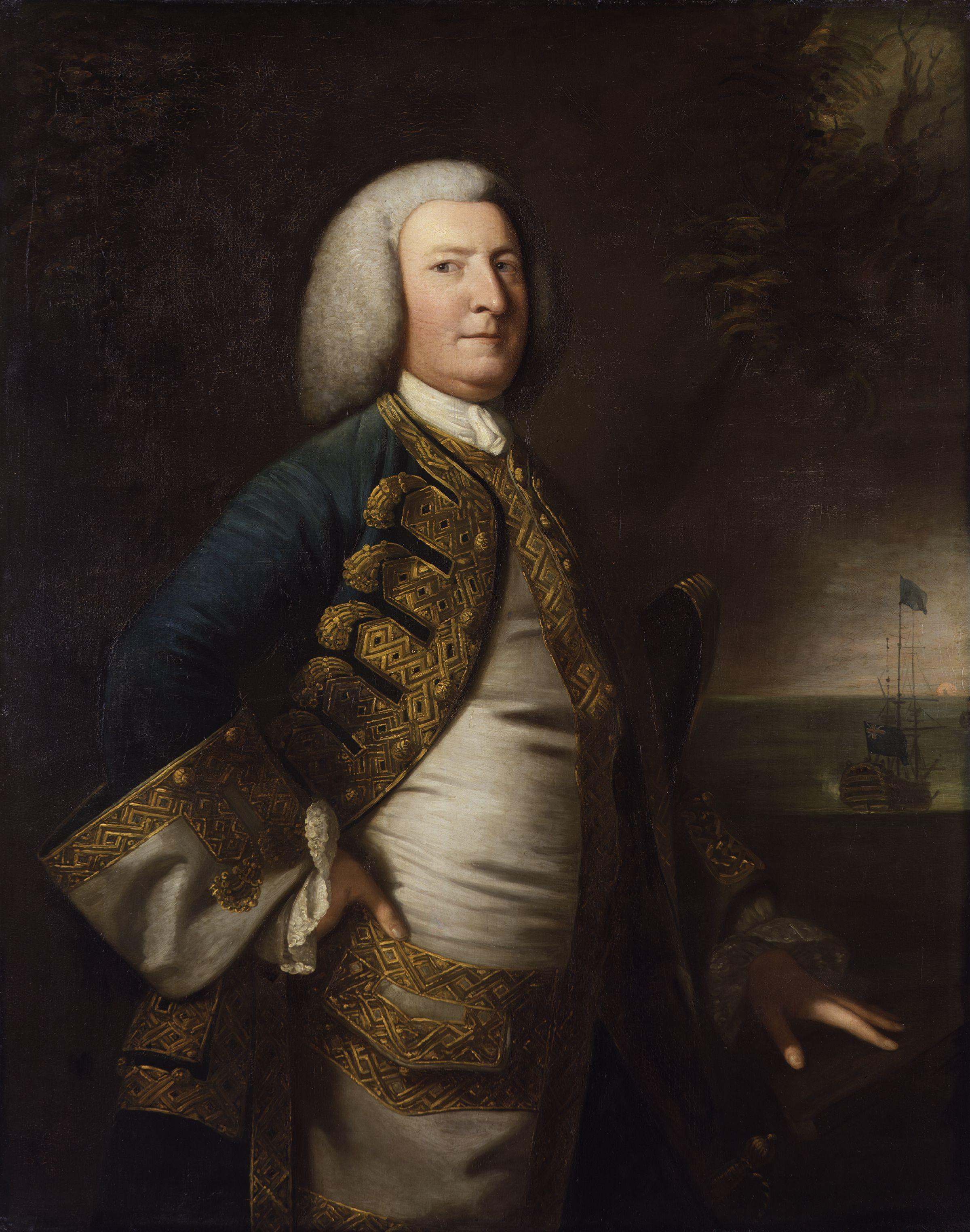 Portrait of George Anson, 1st Baron Anson (1697-1762)